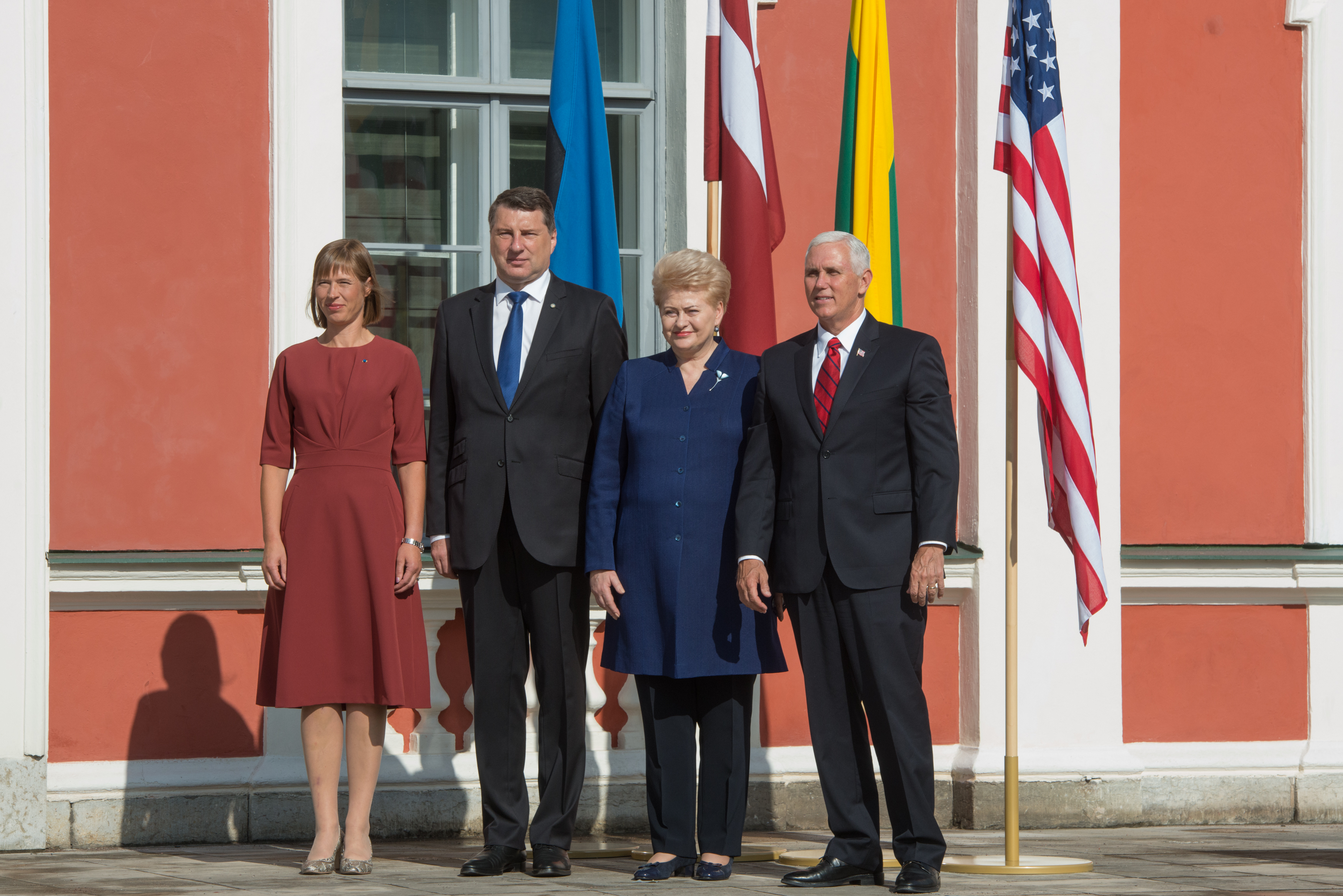 Photo: Raigo Pajula (Ministry of Foreign Affairs)